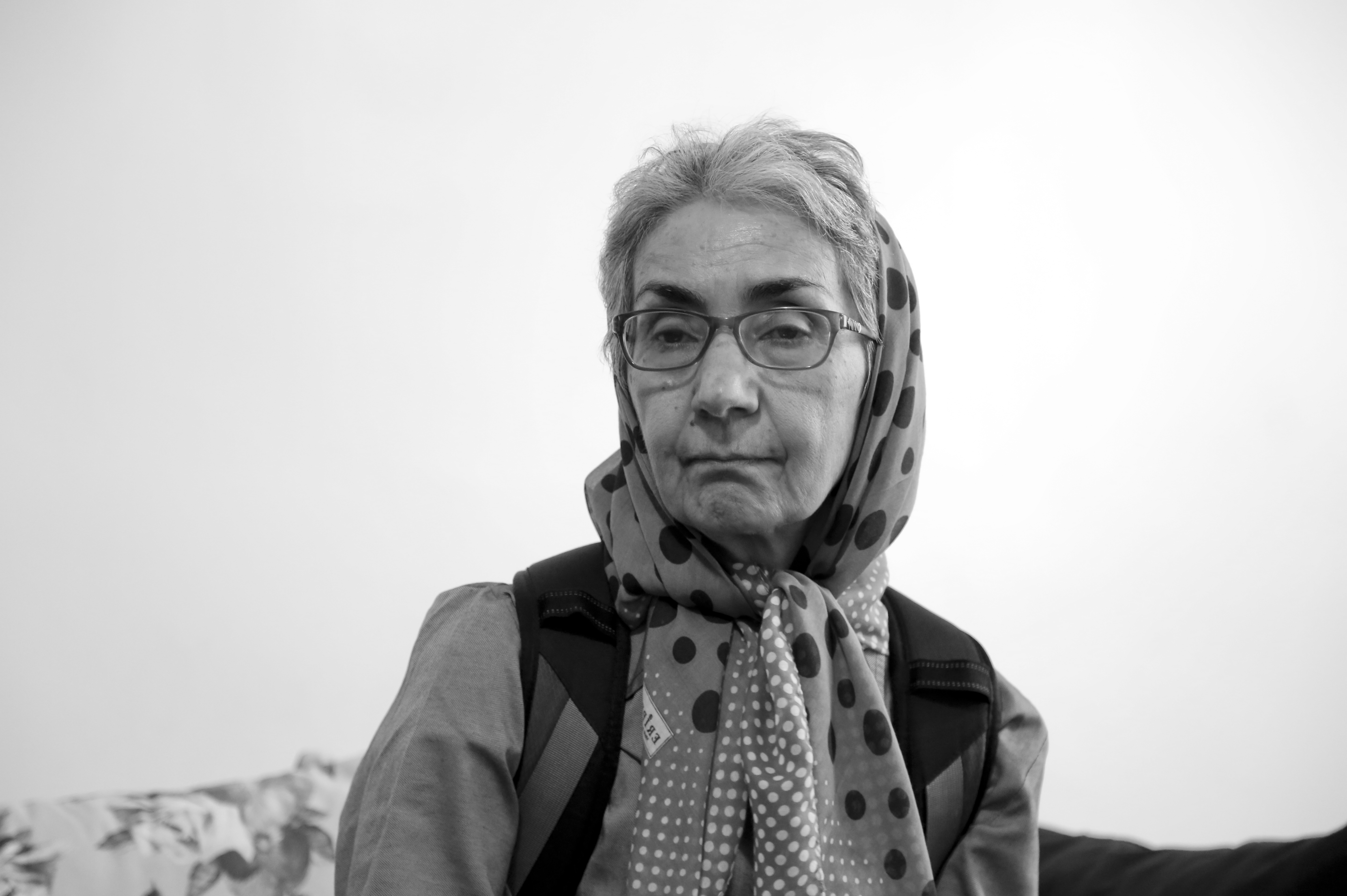 Professor Afsaneh Najmabadi, Francis Lee Higginson Professor of History and of Studies of Women, Gender, and Sexuality at Harvard University in Evaz, Iran. Professor Najmabadi was in Evaz with her team to document the items related to the project "Women's World in Qajar Iran".